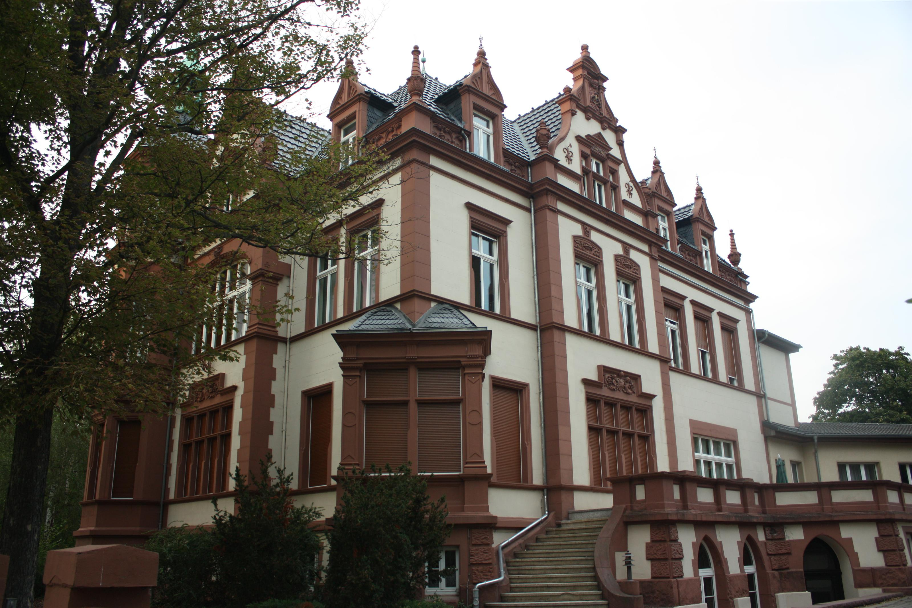 This is a photograph of an architectural monument.It is on the list of cultural monuments of Quedlinburg Billungstraße (Quedlinburg)